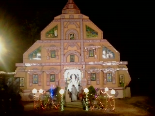 Uttarayan